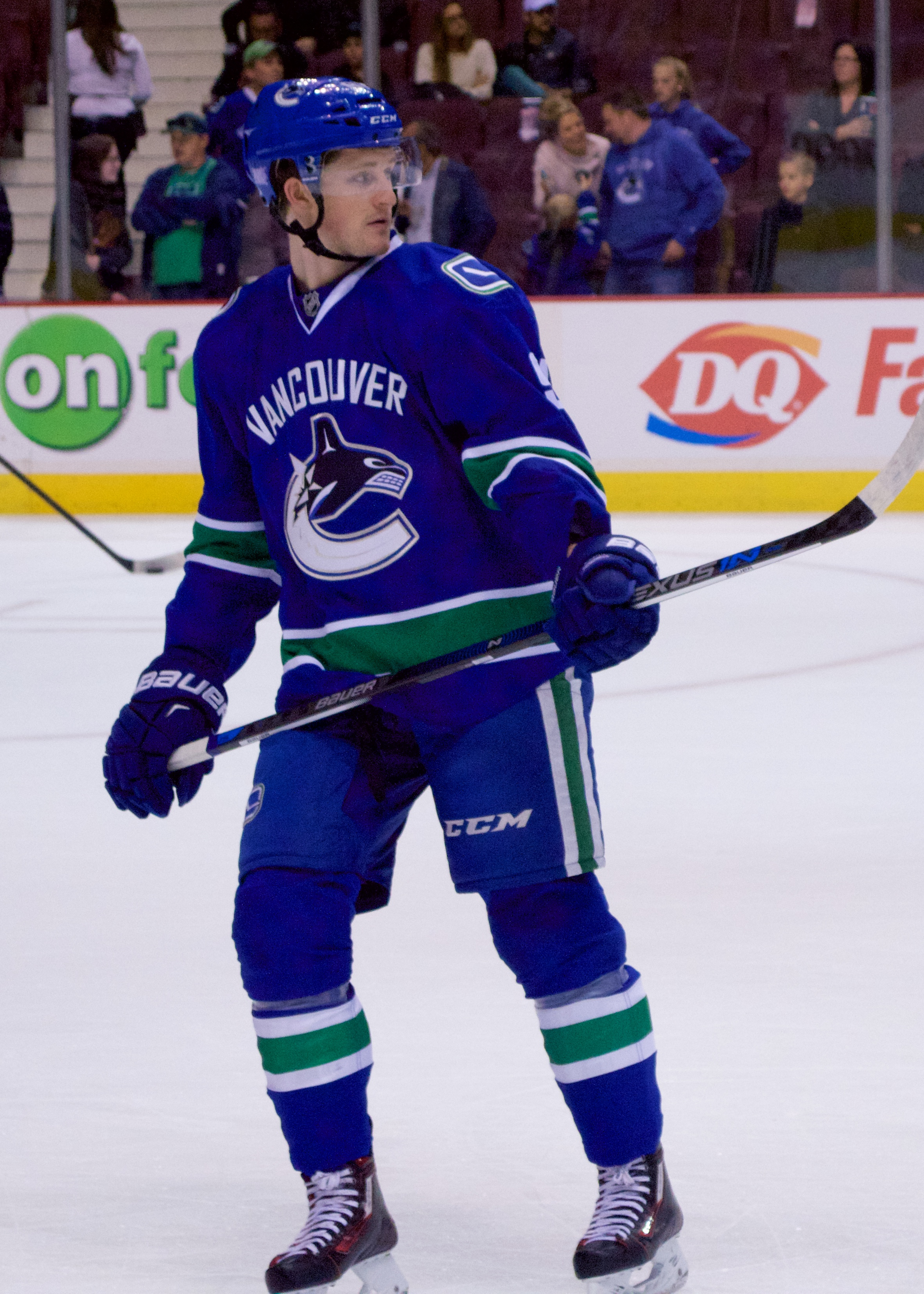 Vancouver Canucks forward Jared McCann during pre-game warmup on October 22, 2015.